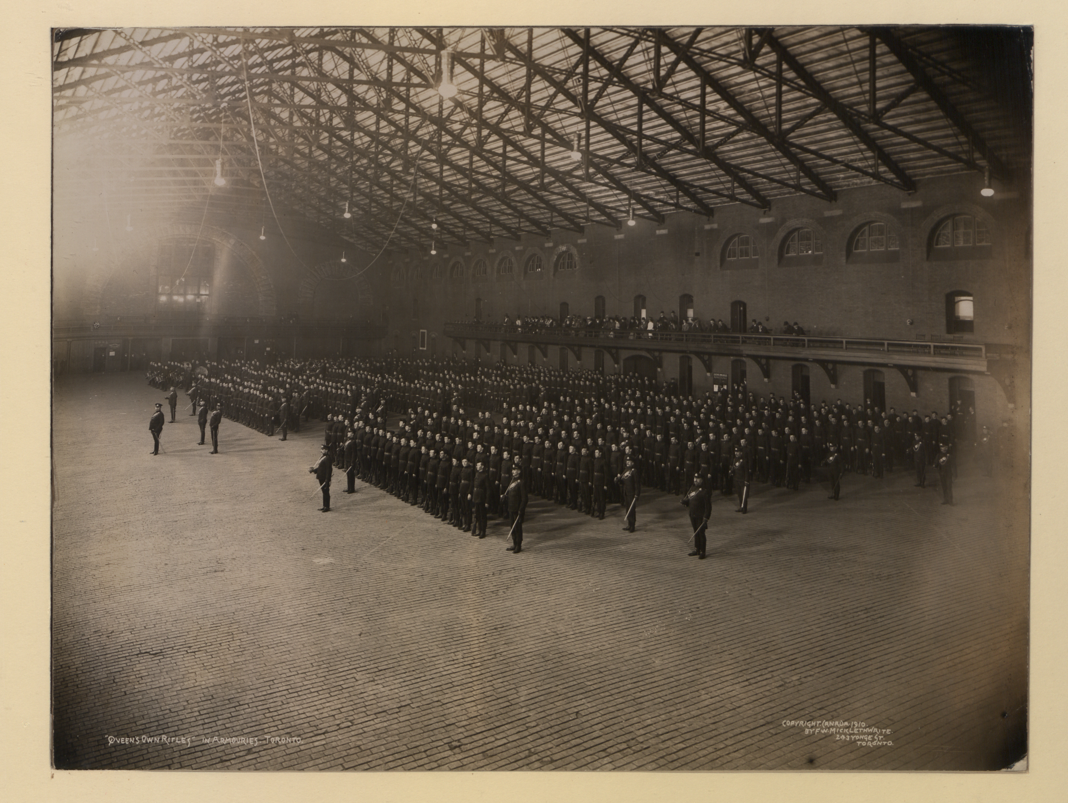 The Queen's Own Rifles of Canada in armouries, Toronto.